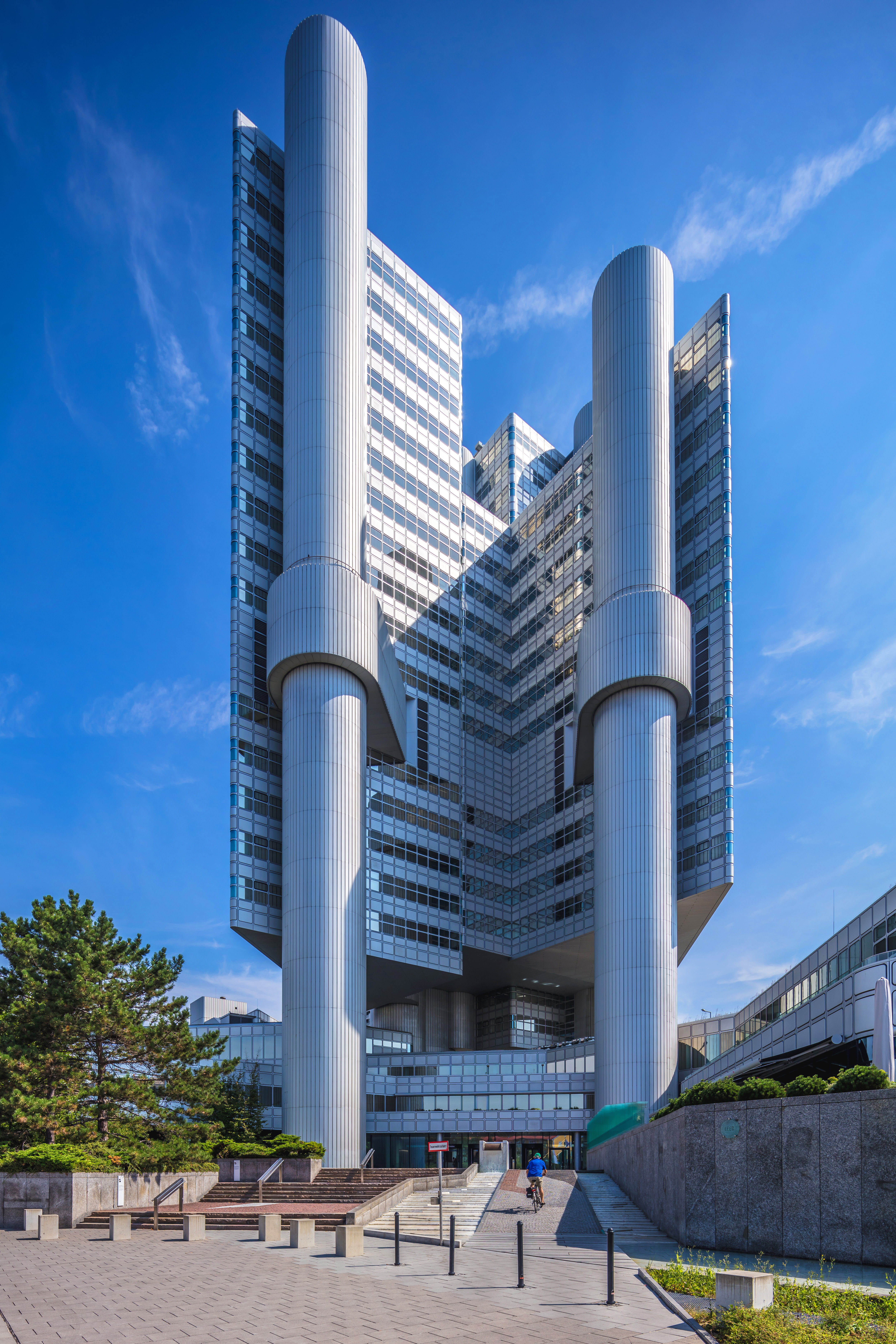 Hypo-Haus (HVB-Tower), Munich (08/2018) - Little tribute to Walther and Bea BETZ (Architects) - Human picture: (1 body / 1 lens / 1 human = 1 picture ) 0% AI... ;- ) ... Following vandalization (Rotterdam) of my work, final stop of this series on European cities. My work not being respected, I definitively stop my publications in Wikimedia Commons (including definition and quality updates). Final publication in Wikimedia Commons